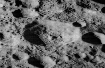 Oblique view of Dante, on the far side of the moon. North at top.